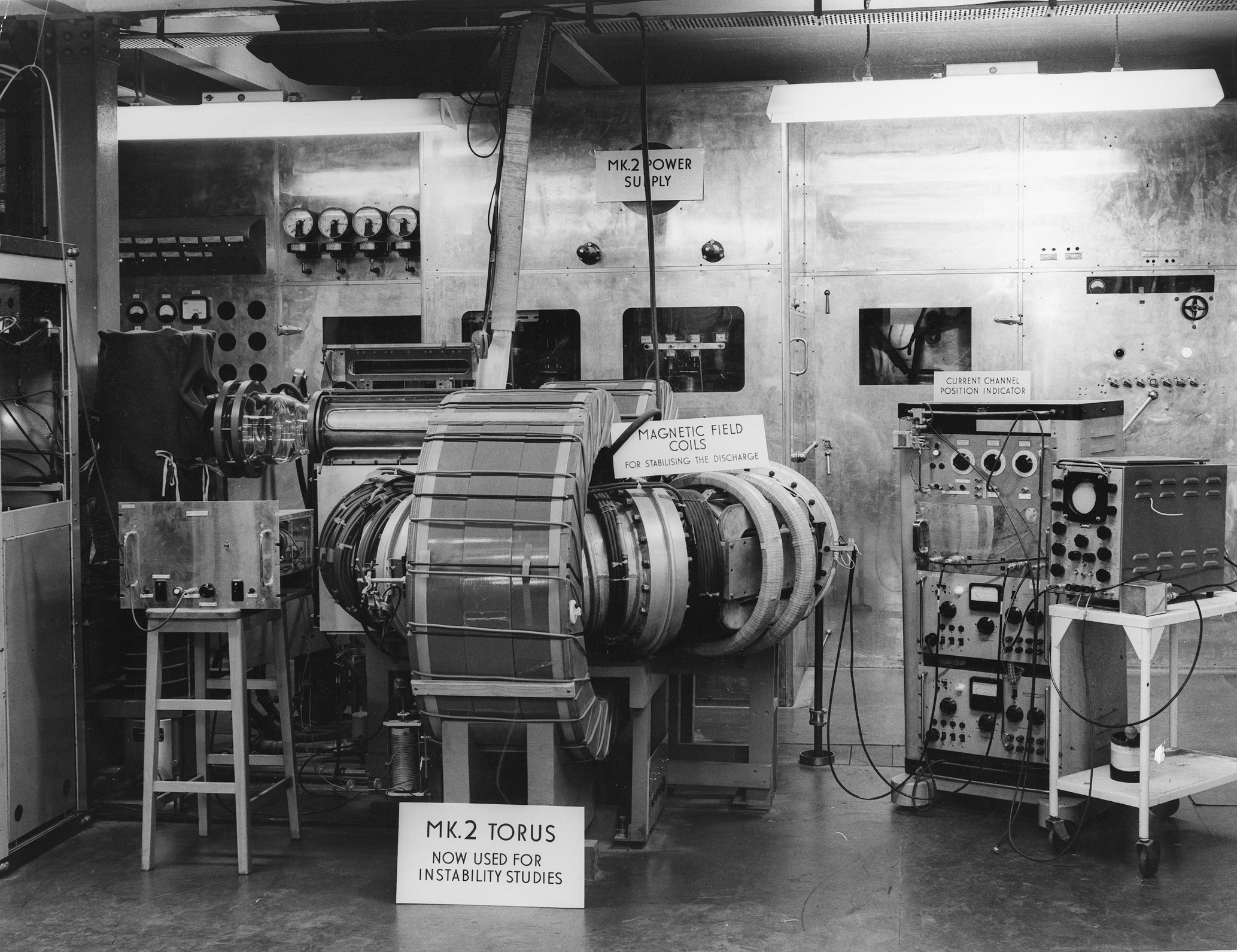 The Mark 2 Torus was one of the series of pinch reactor designs that led to the ZETA reactor. By the time this image was taken, during the unveiling of ZETA to the press, Mark 2 was relegated to secondary duties.